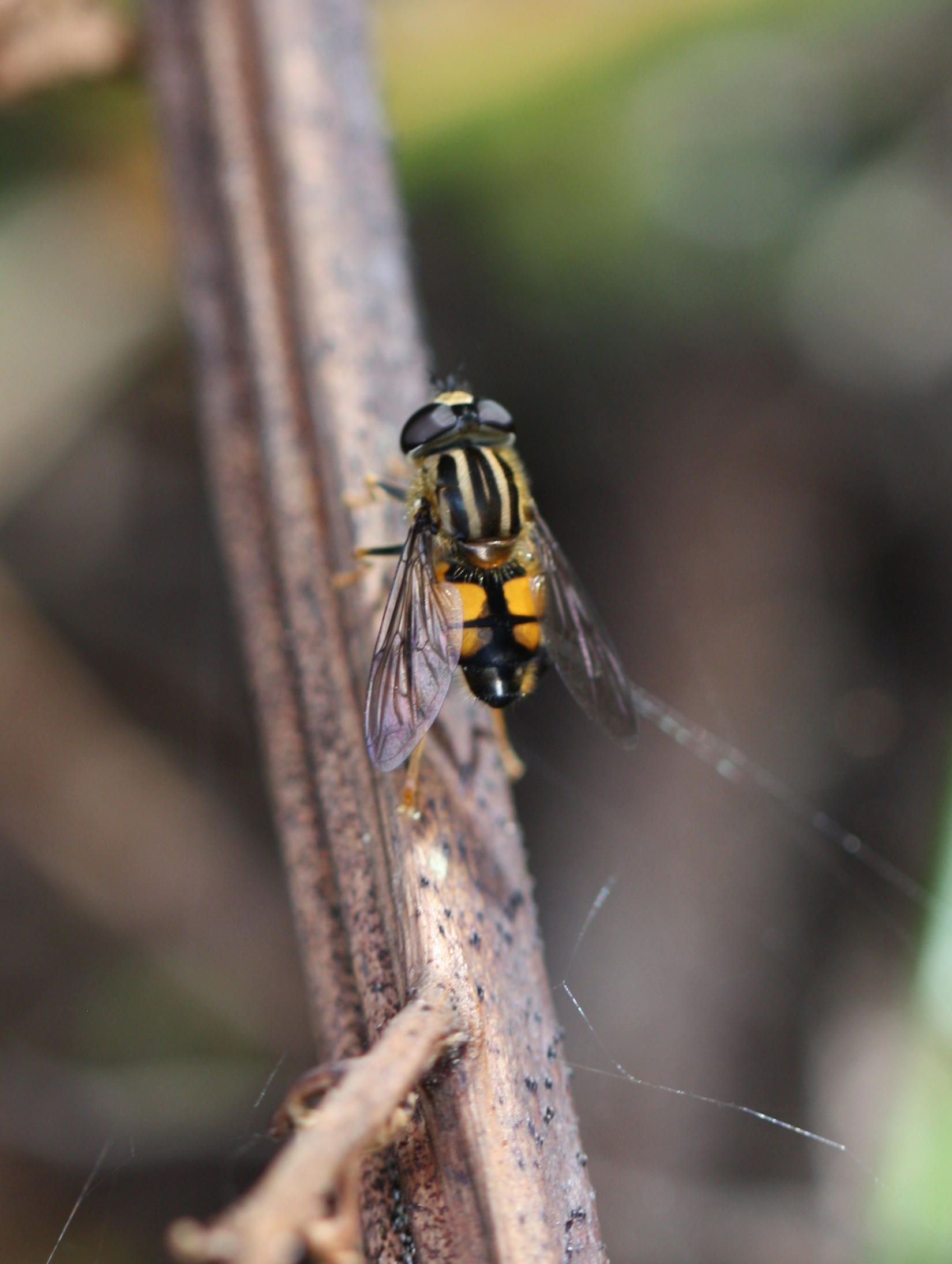 Helophilus seelandicus at Stewart Island